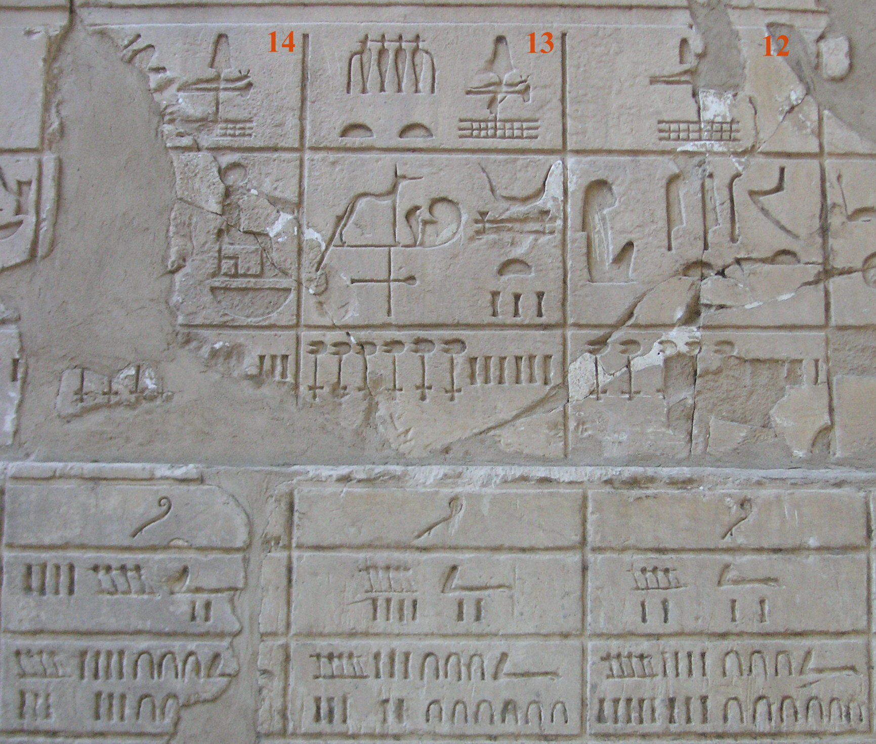 Nome 12 to 14 of Upper Egypt (list of Sesostris I.)